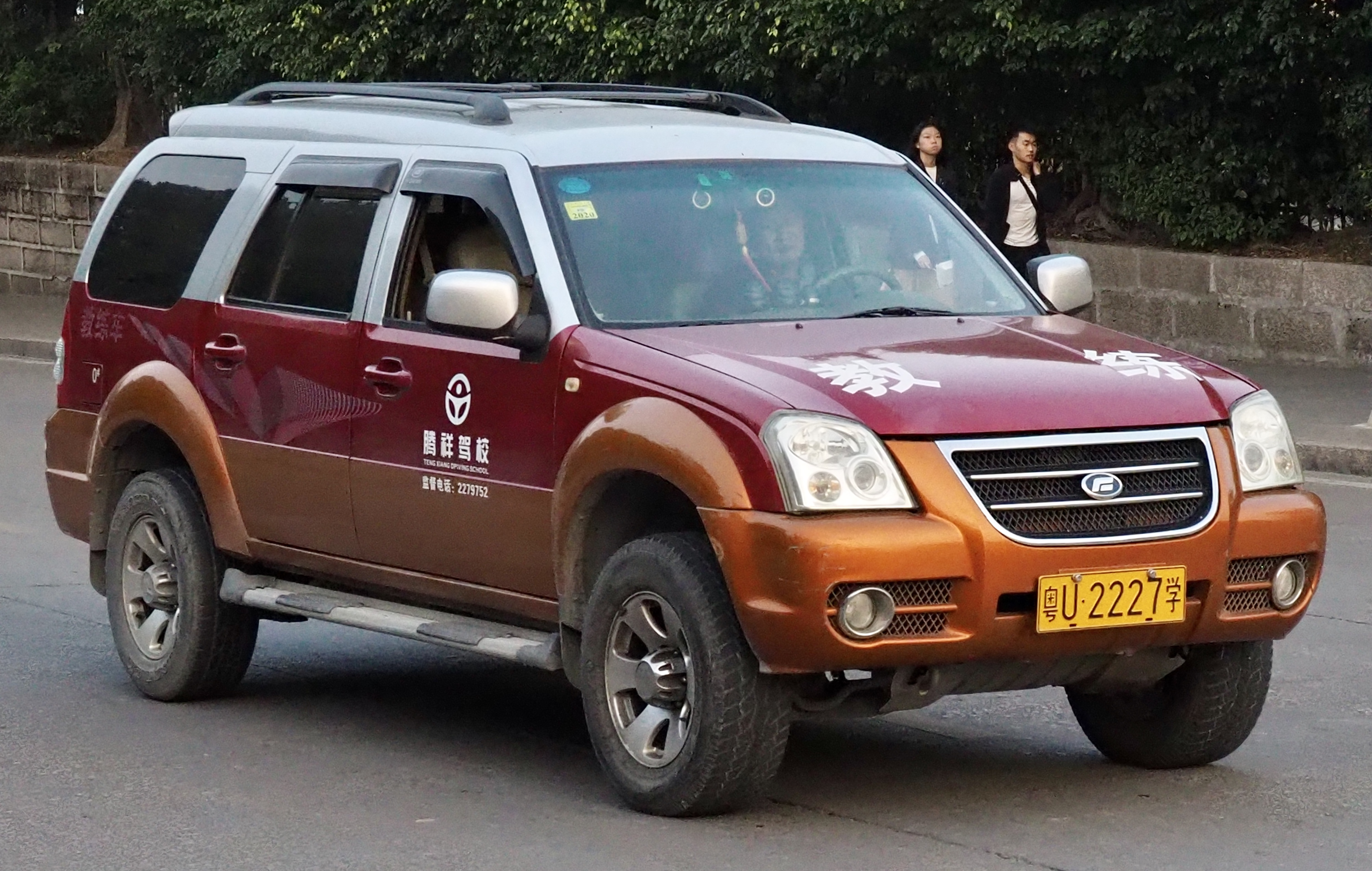 A 2010 Guangdong Foday Explorer III photographed in Chaozhou, Guangdong Province, China. 中文（中国大陆）: 一辆2010年的广东福迪探险者III，拍摄于中国广东省潮州市。